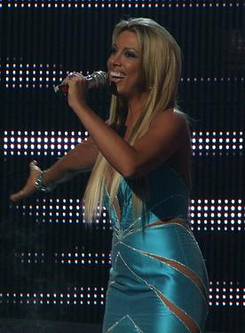 Eurovision Song Contest 2008, 1st semifinalPoland: Isis Gee - "For life"